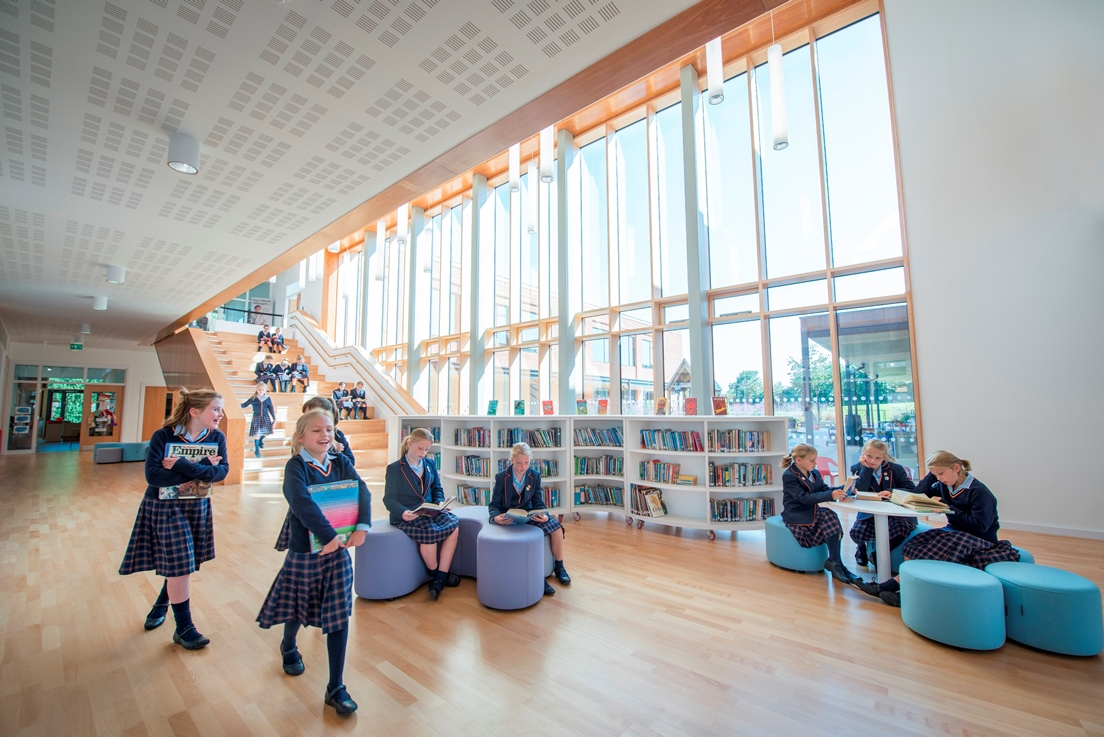 Inside the new Junior School